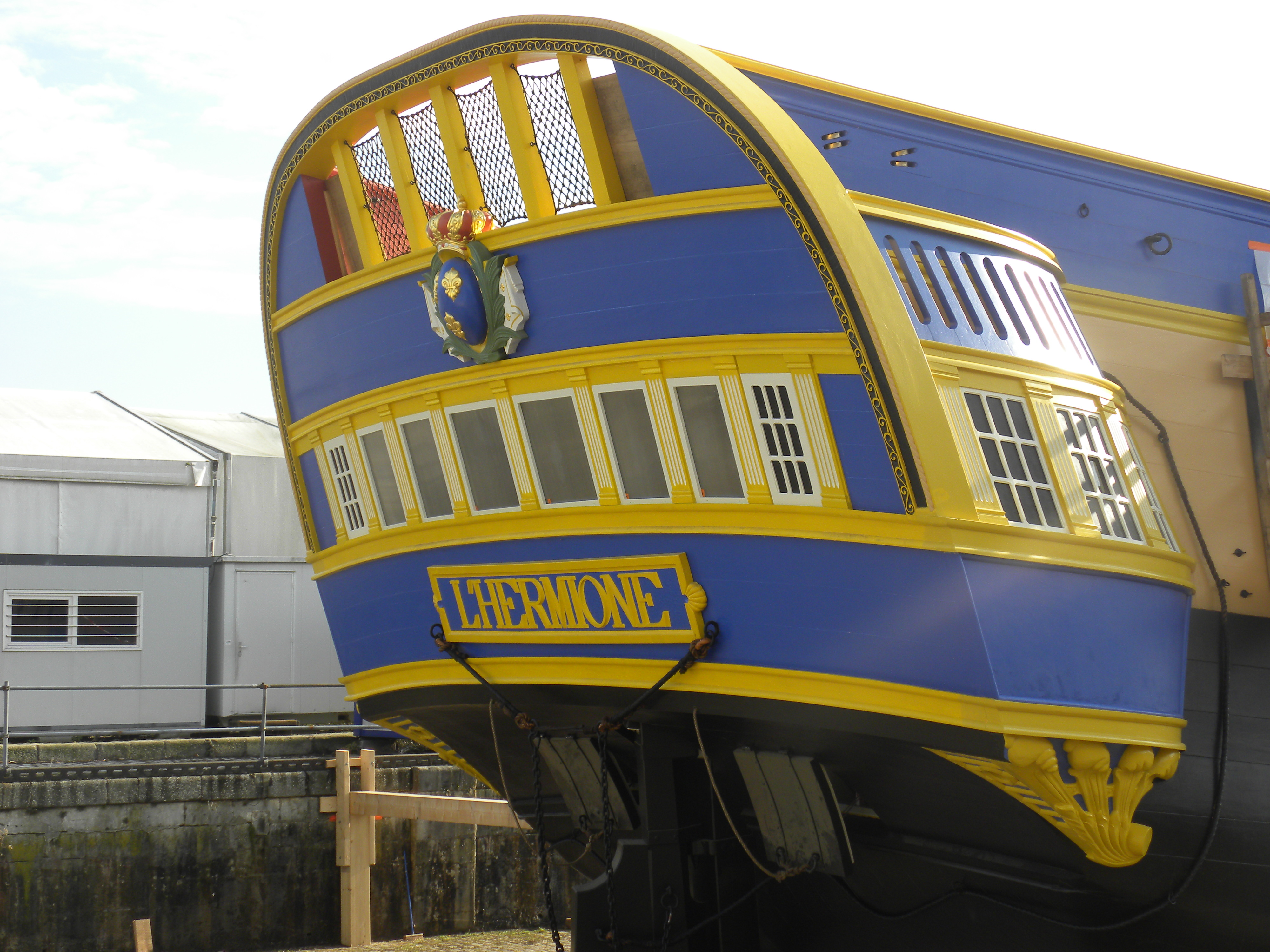 French frigate Hermione (1779)